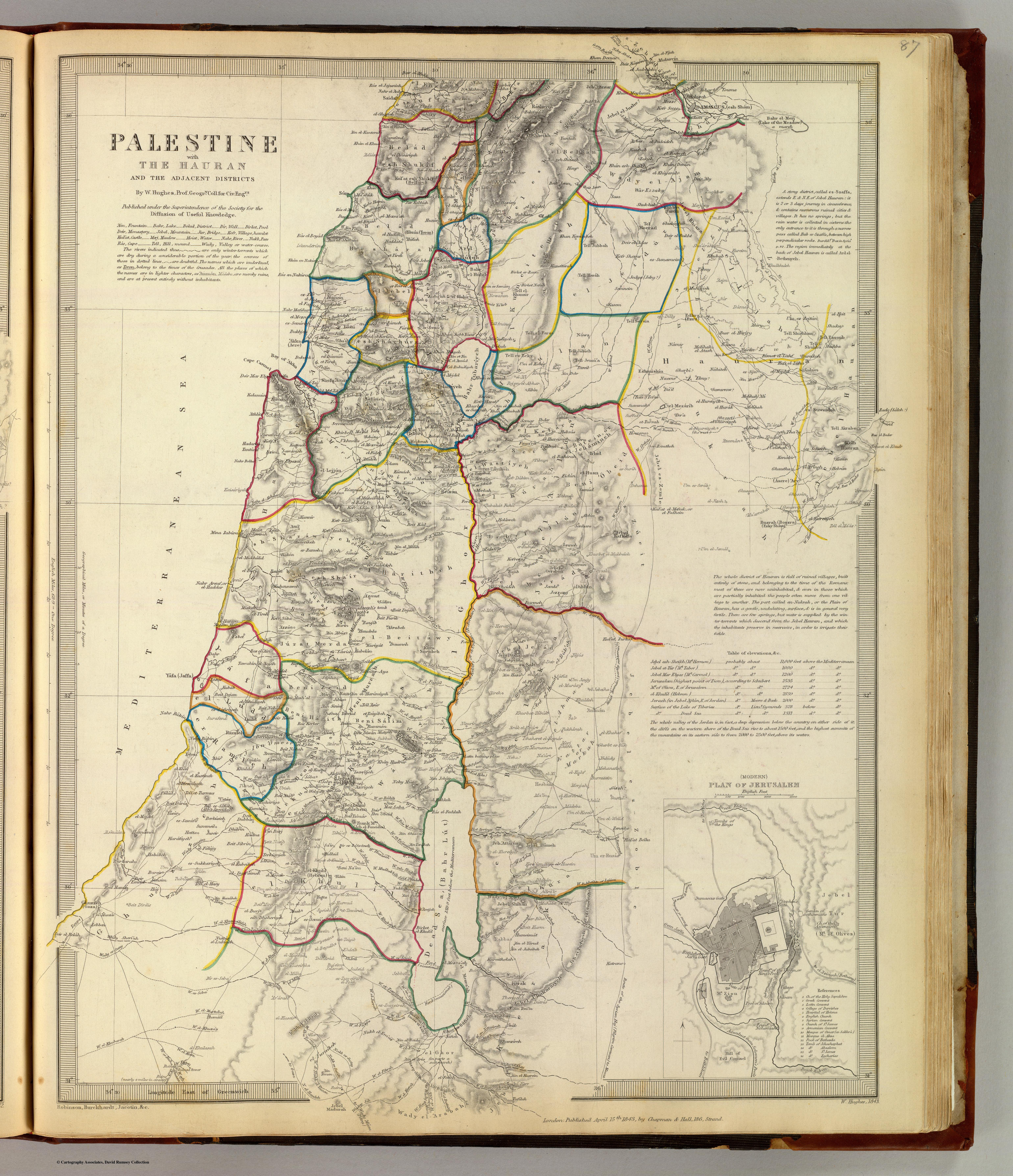 Palestine with the Hauran and the adjacent districts By W. Hughes, Prof. Geogr(aph)y, Coll. for Civ. Engrs. (with) Modern plan of Jerusalem. Published under the superintendence of the Society for the Diffusion of Useful Knowledge. (Engraved by) W. Hughes, 1843. London, published April 15th. 1843 by Chapman & Hall, 186, Strand (1844)